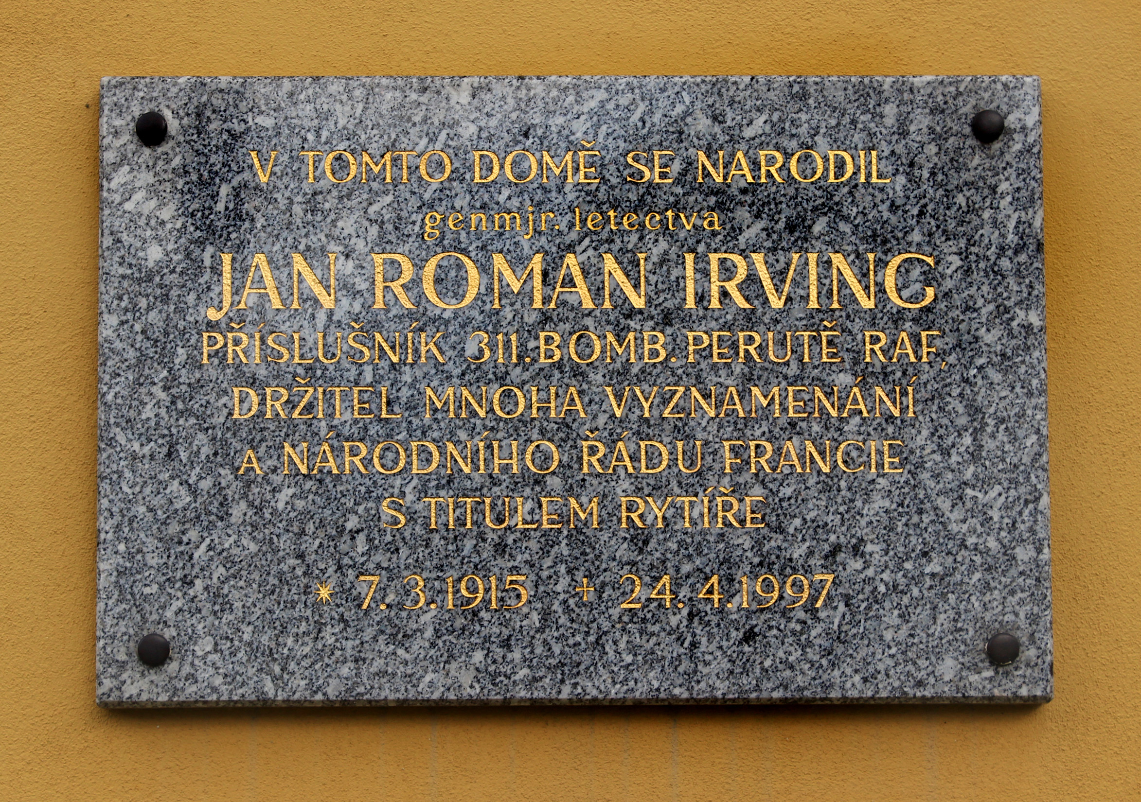 Plaque on house No. 15 in Lisov, Czech Republic.